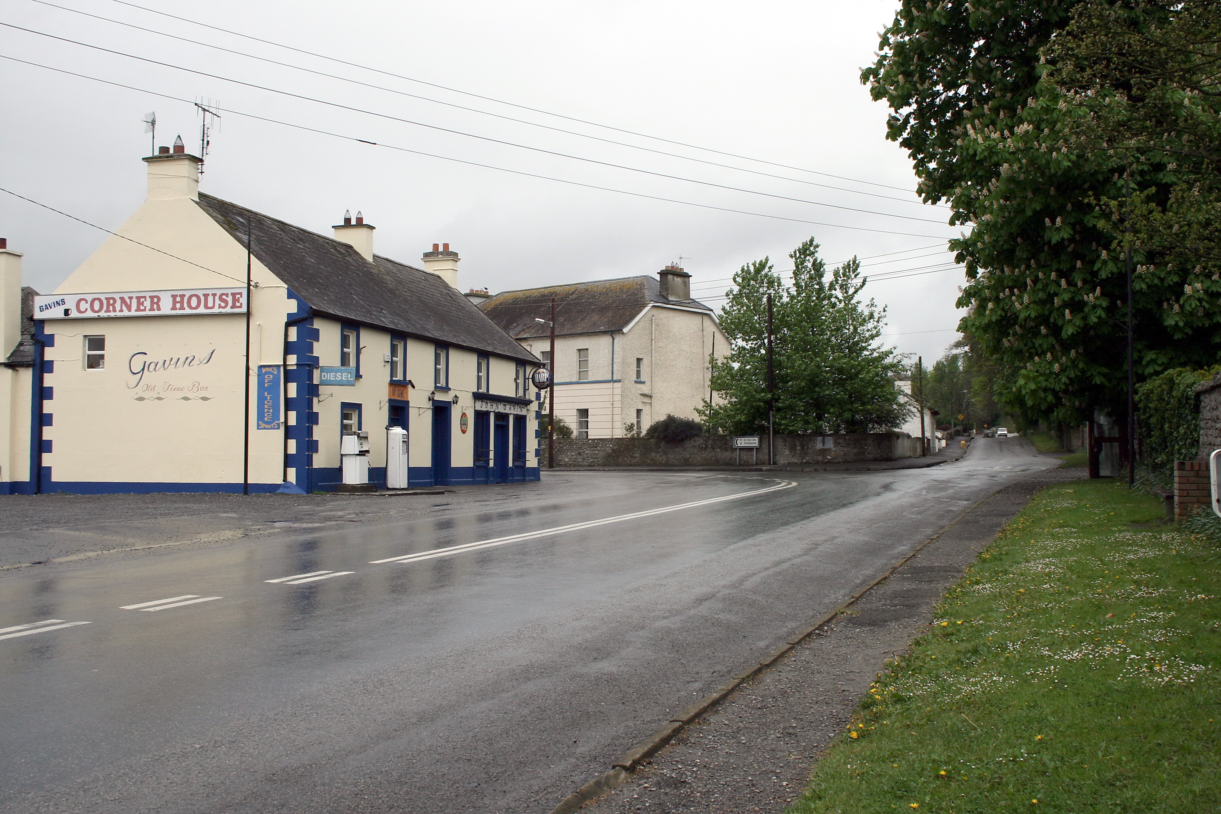 On the R426 on a rainy day in Ballycumber, County Offaly